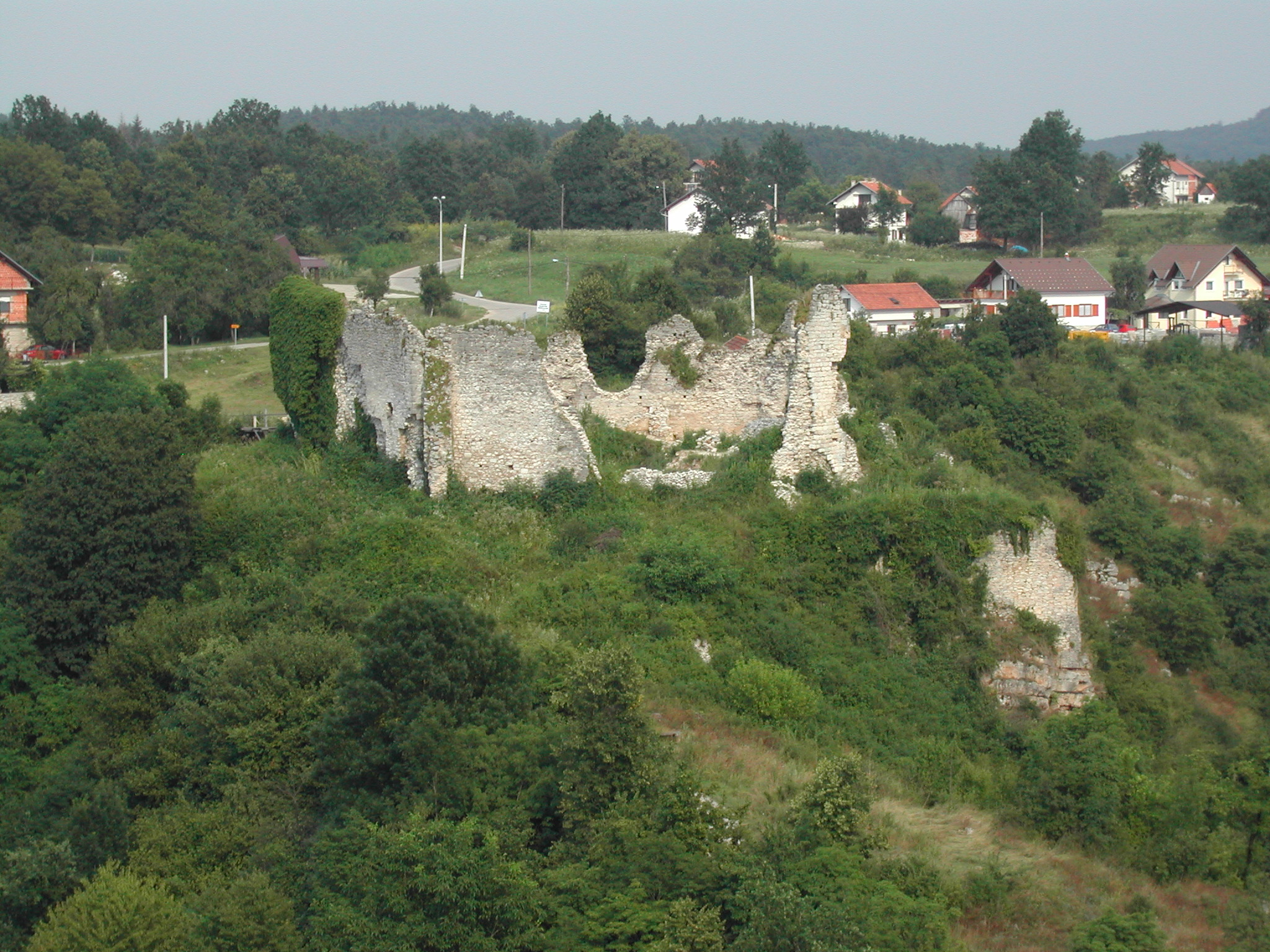 The Old fortification of the Frankopans in Slunj, Croatia. Photographed in the summer of 2004 from User neoneo13 for Wikipedia.